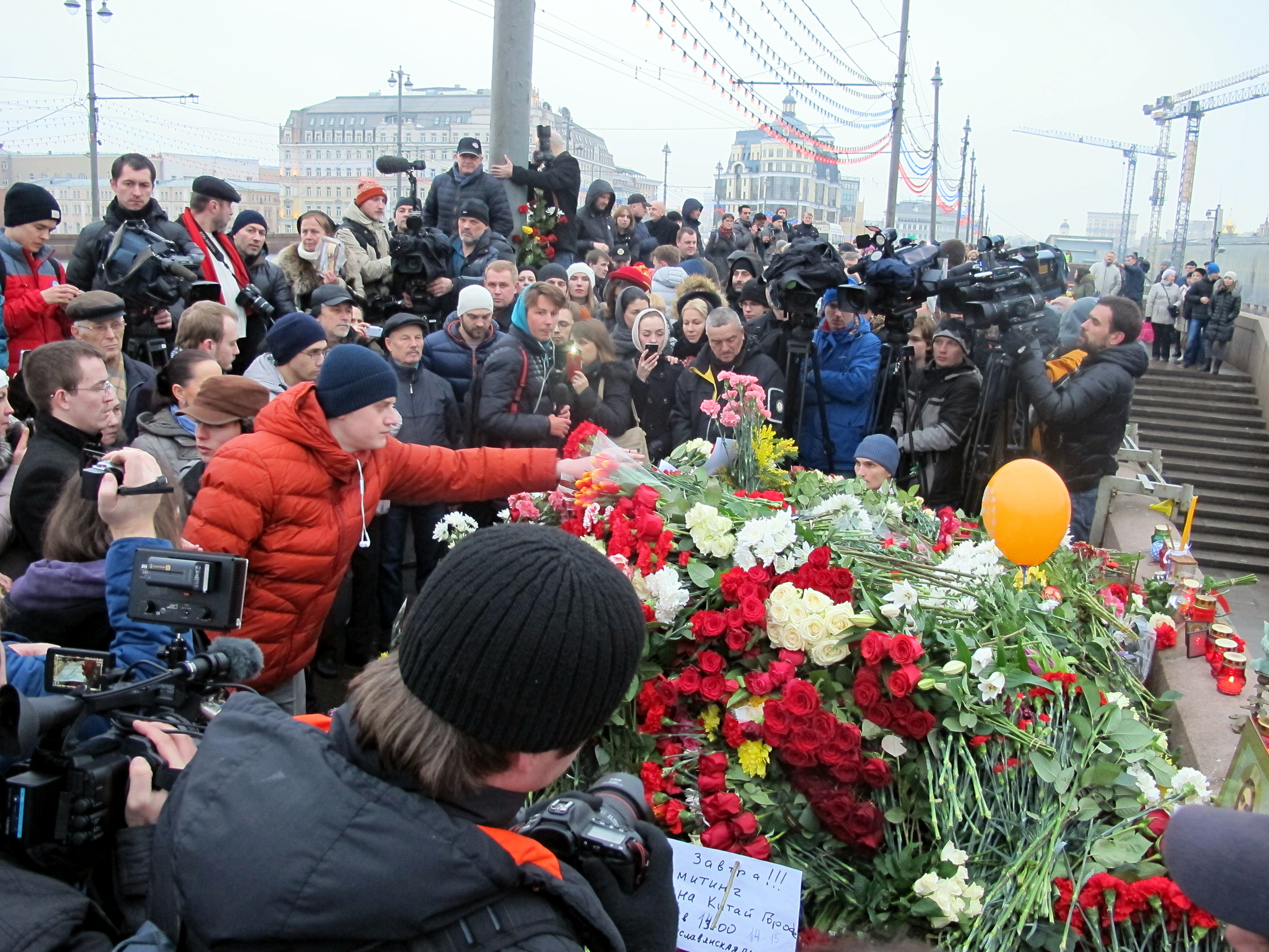 People came to the side of Boris Nemtsov's murder (2015-02-28)